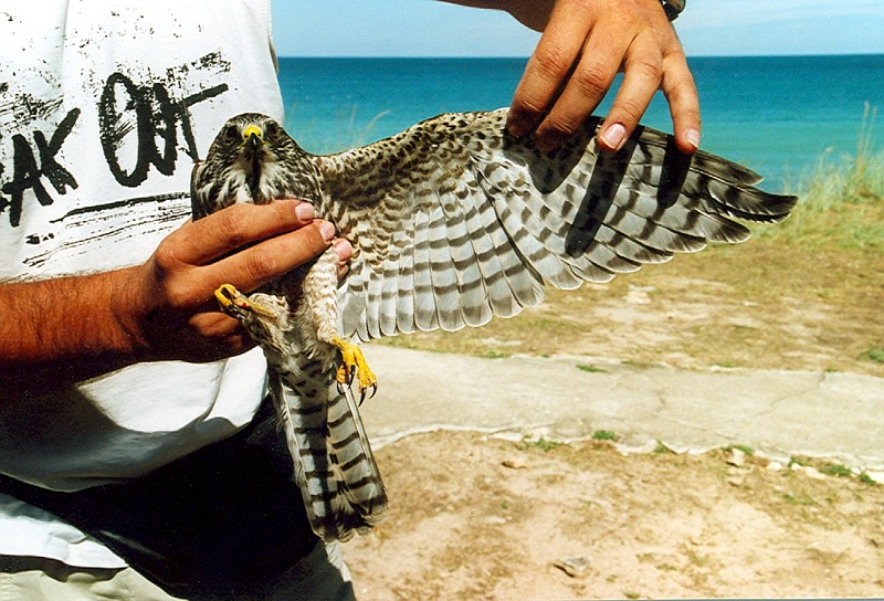 A sparrowhawk Accipiter nisus at the Black Sea.